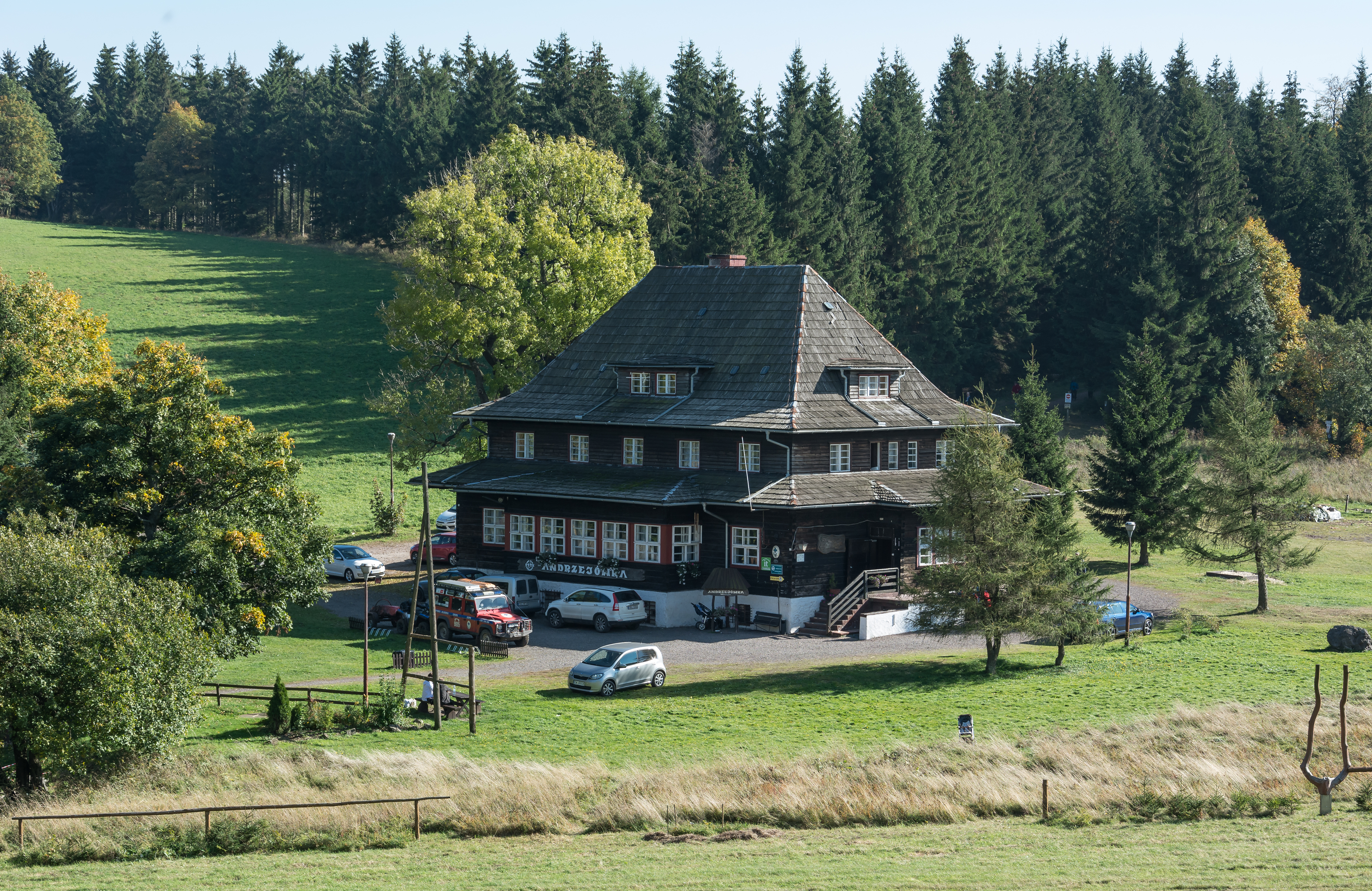 Andrzejówka hostel